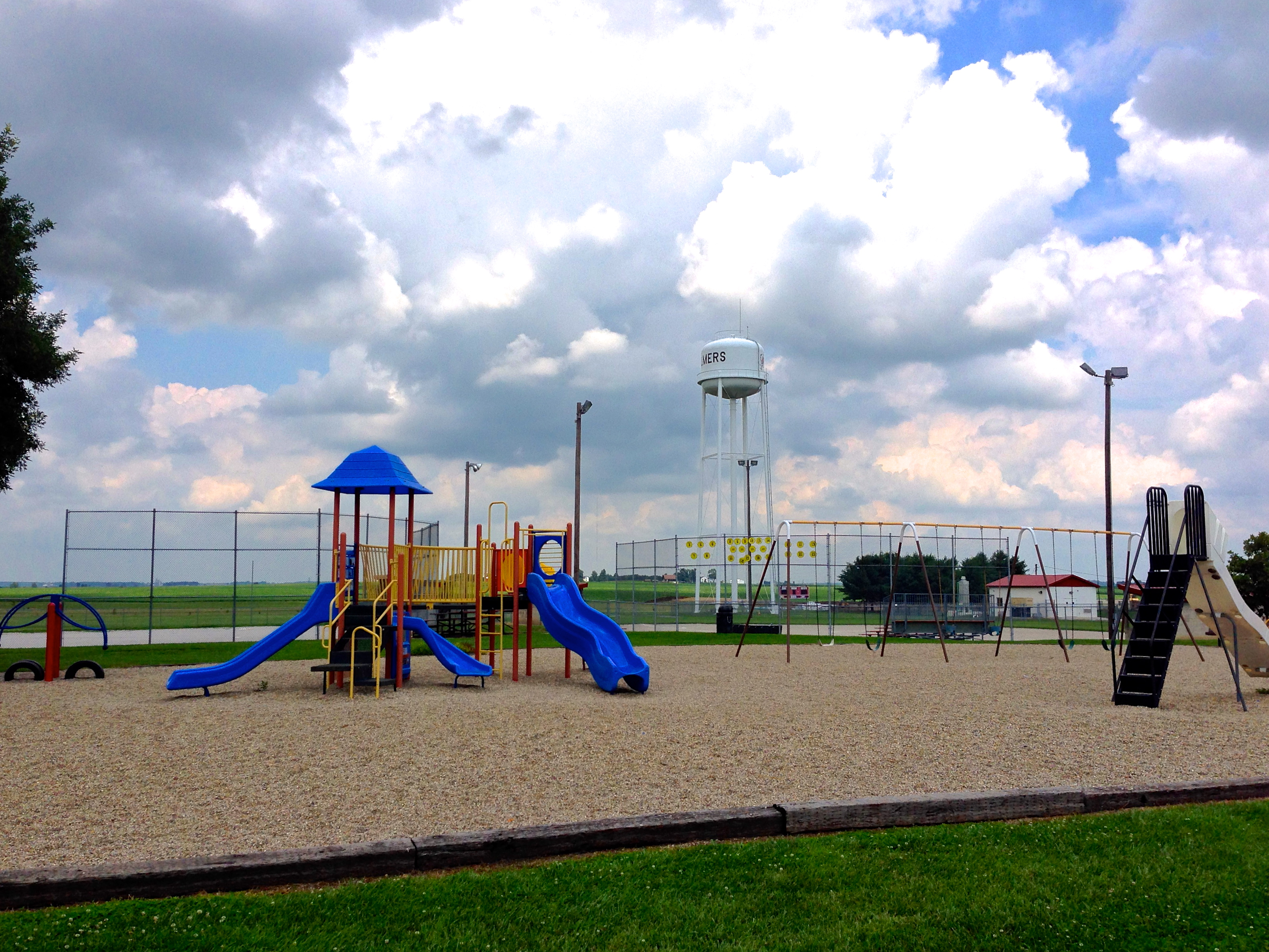 a north-facing view of the playground at Chalmers Community Park.